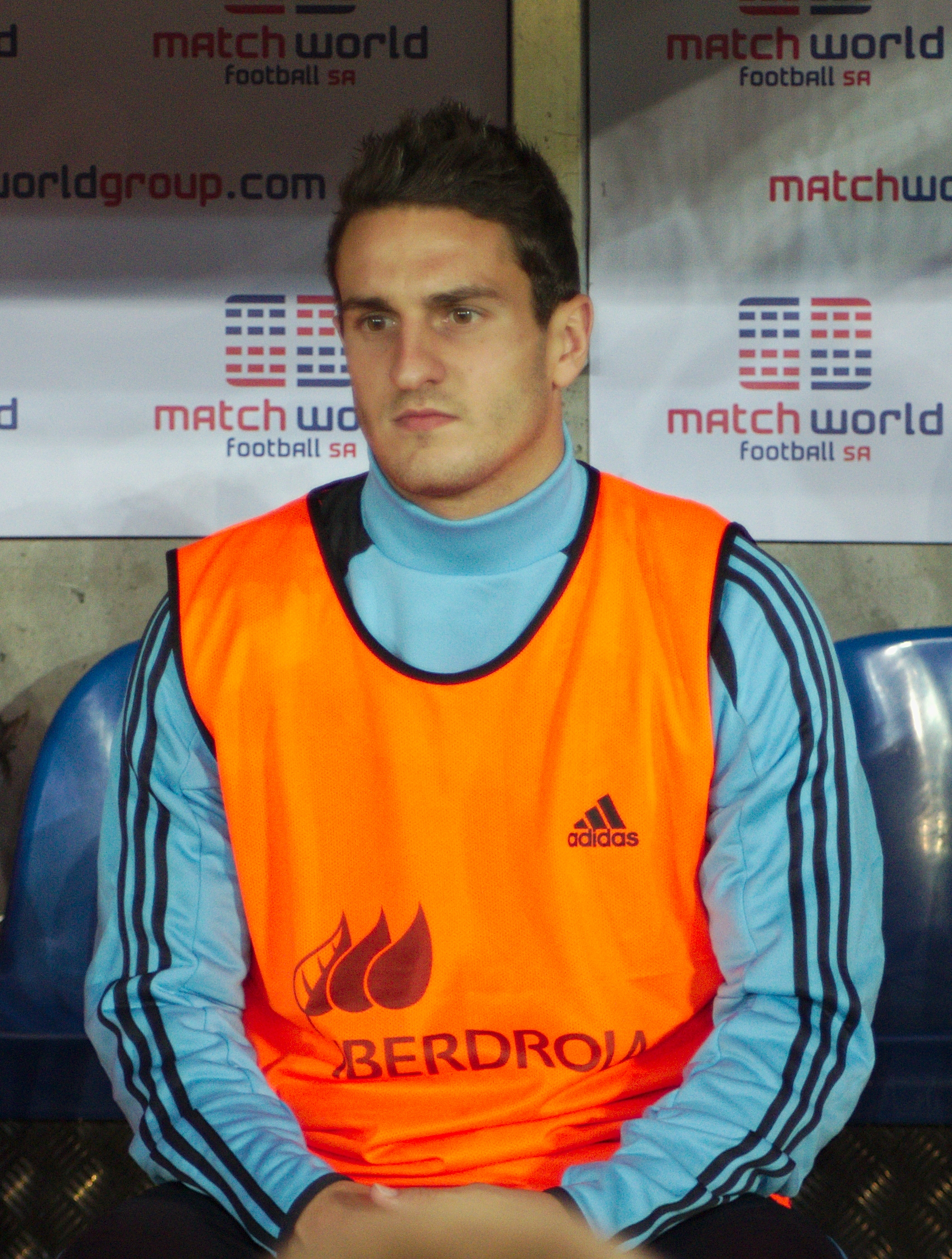 Spain - Chile - 10-09-2013 - Geneva - Nacho, Koke and David Villa